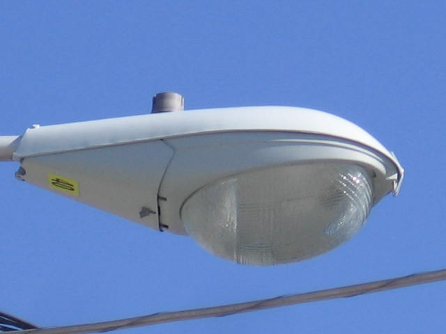 History of street lighting: General Electric M400A2 (1986–1996 Reintroduced in 2008–2016) (150–400 watts)